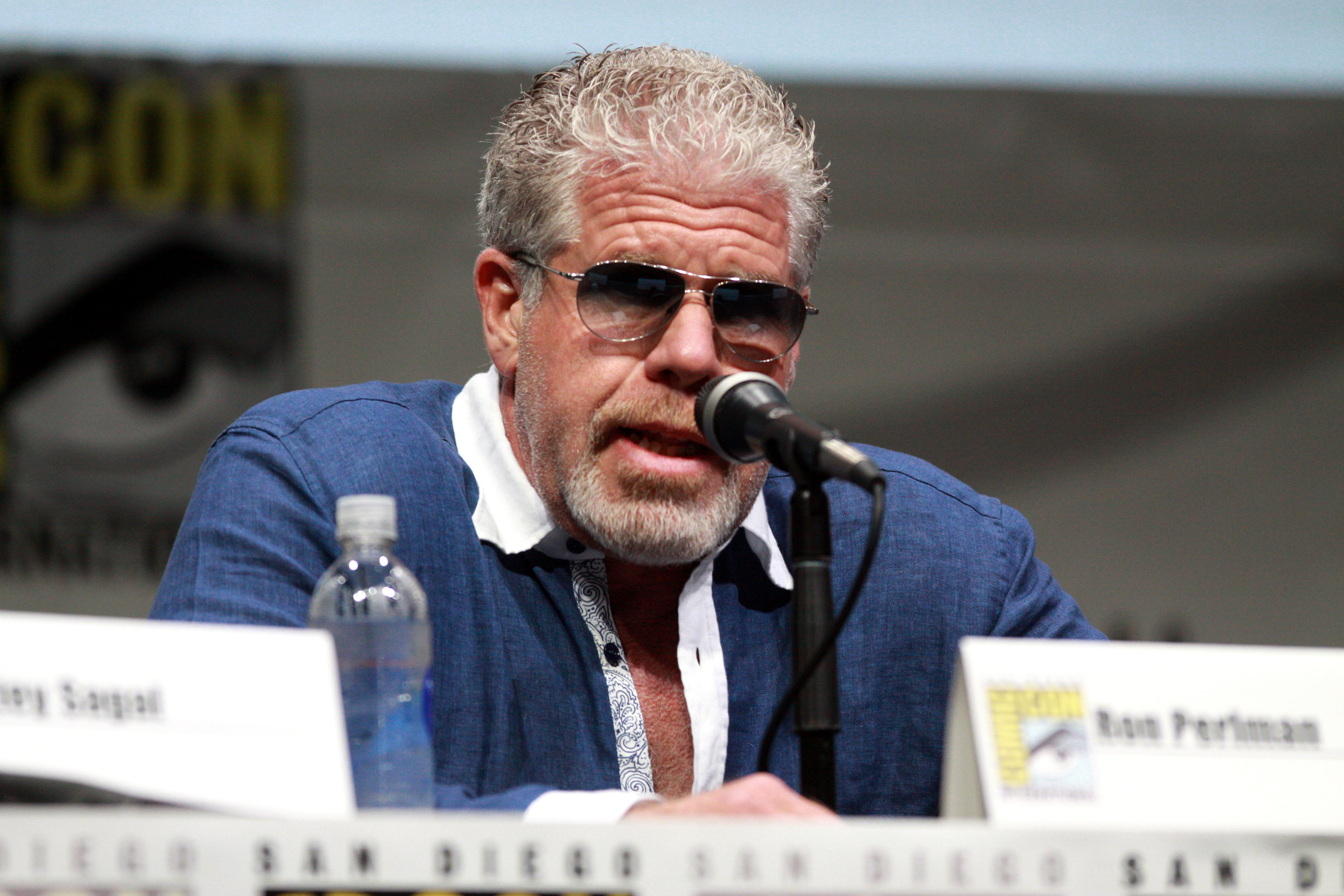 Ron Perlman speaking at the 2013 San Diego Comic Con International, for "Sons of Anarchy", at the San Diego Convention Center in San Diego, California.